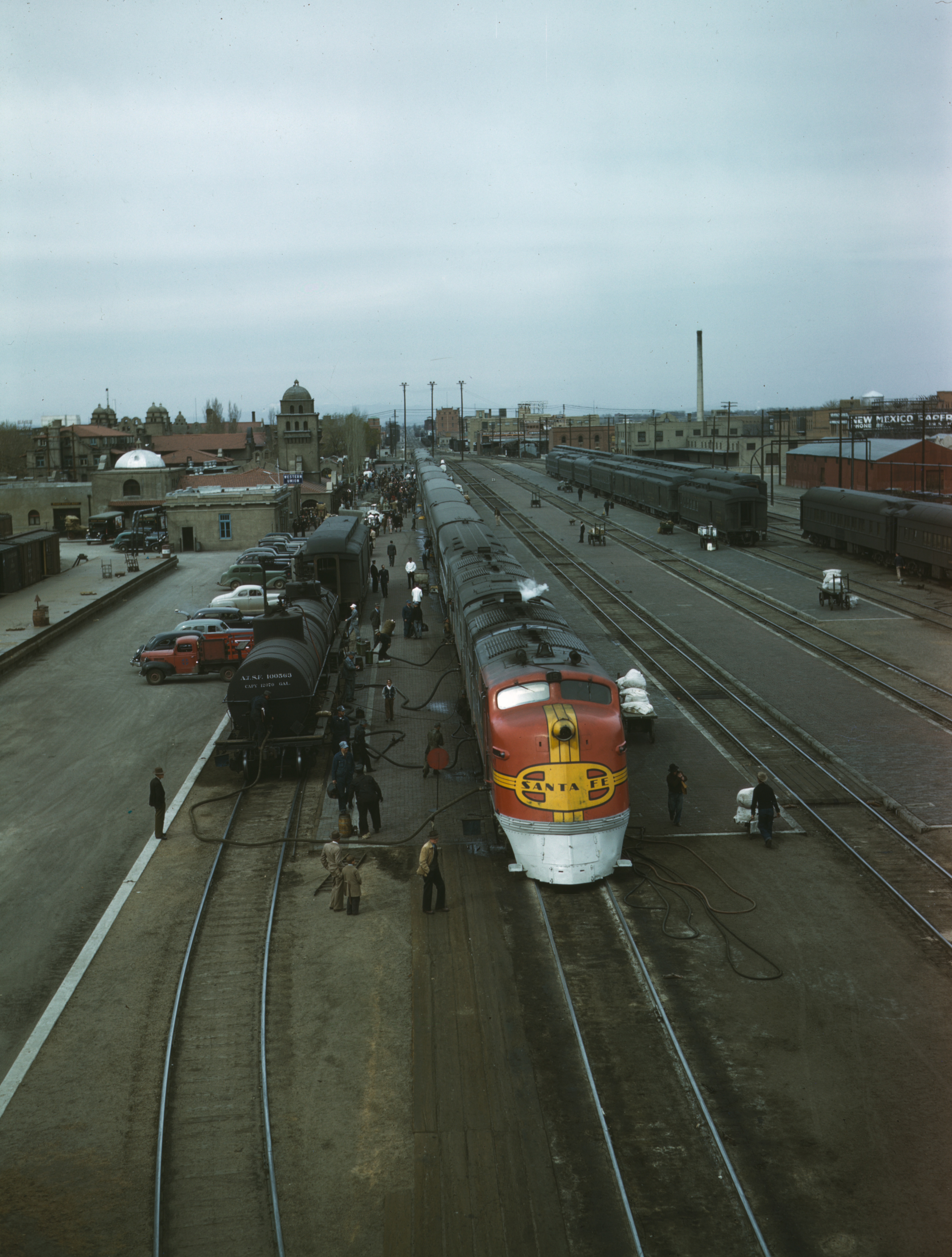 Santa Fe R.R. streamliner, the "super Chief," being serviced at the depot, Albuquerque, N.M. Servicing of these diesel streamliners takes five minutes. Santa Fe R.R. trip